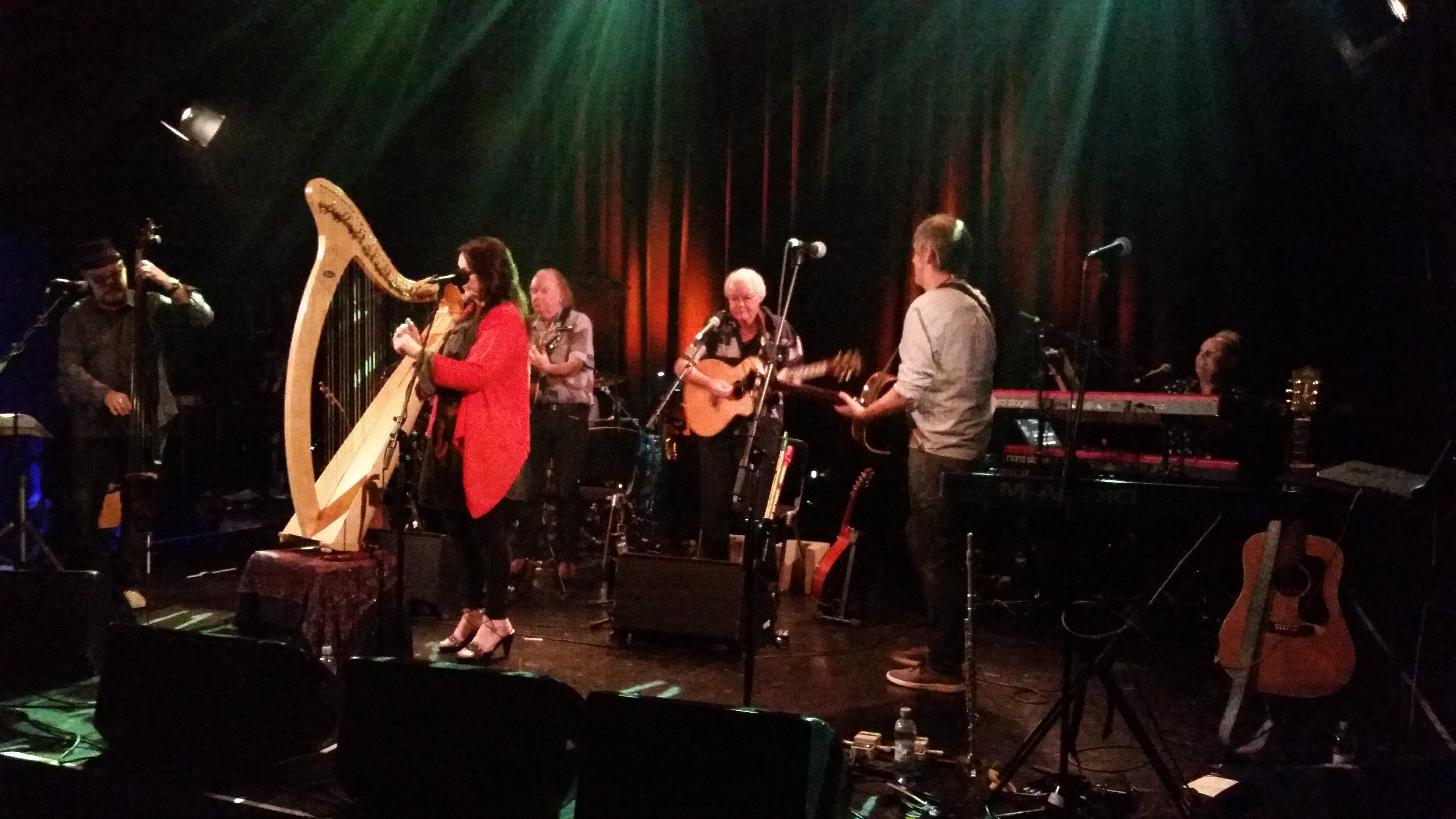 Clannad live in Norway 18th Sept 2015